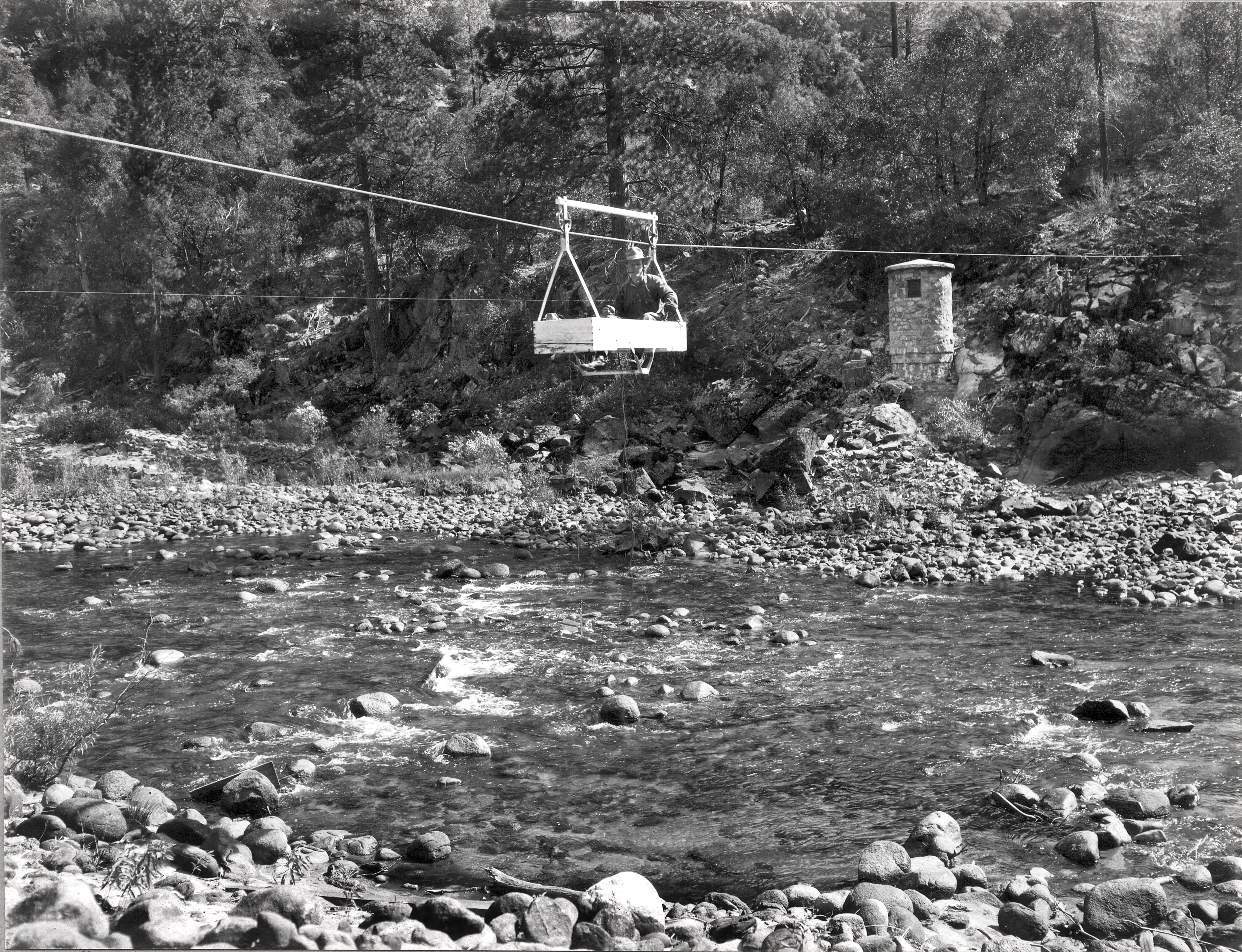 Tuolumne River — below Hetch Hetchy dam site near Yosemite, Tuolumne County, California. View across channel to left bank showing masonry well, house car, cable and stay wire. C.J. Emerson in car.